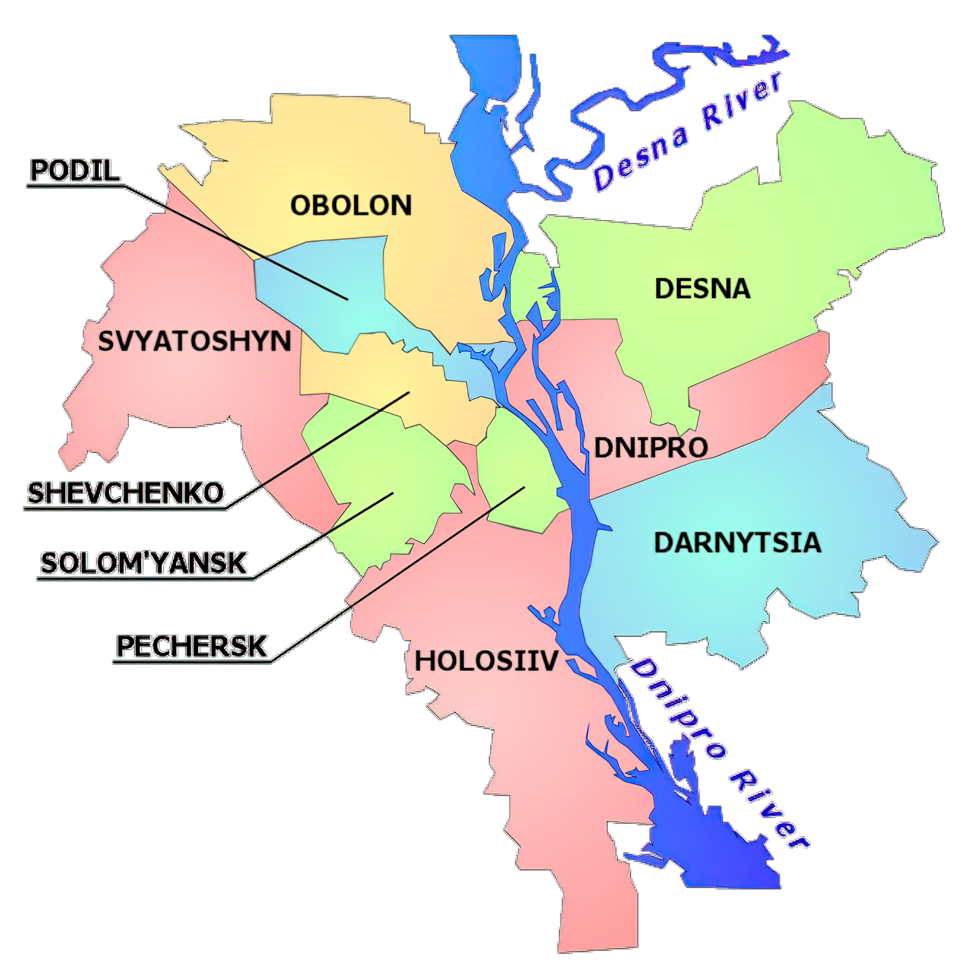 Map of Kiev separated into raions, with Dnipro and Desna rivers, labelled in English. Author: User:mno - me.